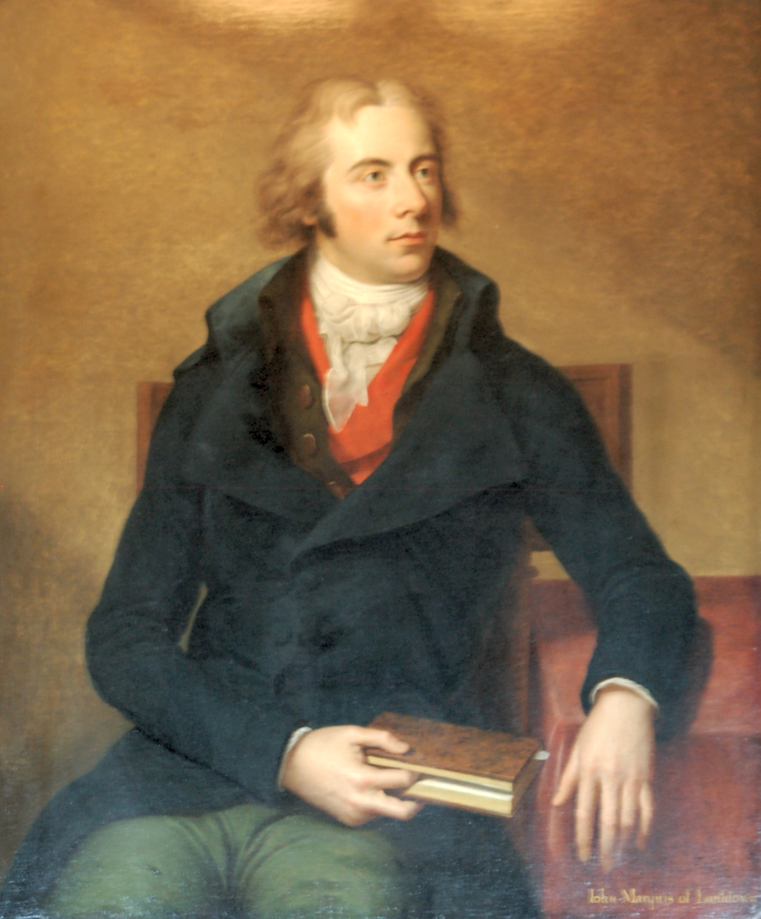 Portrait of John, Earl of Wycombe, later 2nd Marquess of Lansdowne. Bowood — is a stately Georgian country house and landscape gardens of the Marquis and Marchioness of Lansdowne.